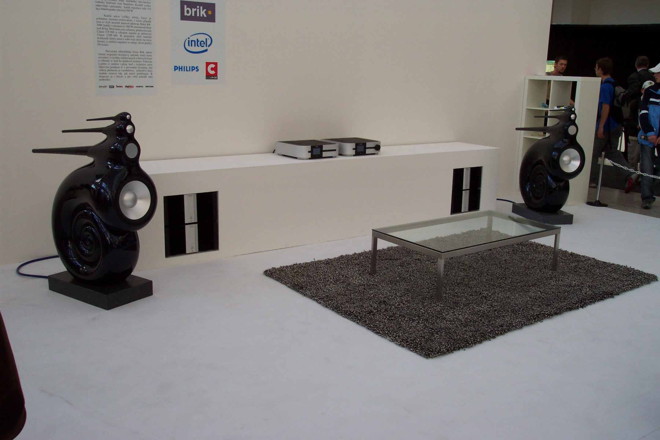 Brno, Invex exhibition - Výstava Invex v Brně